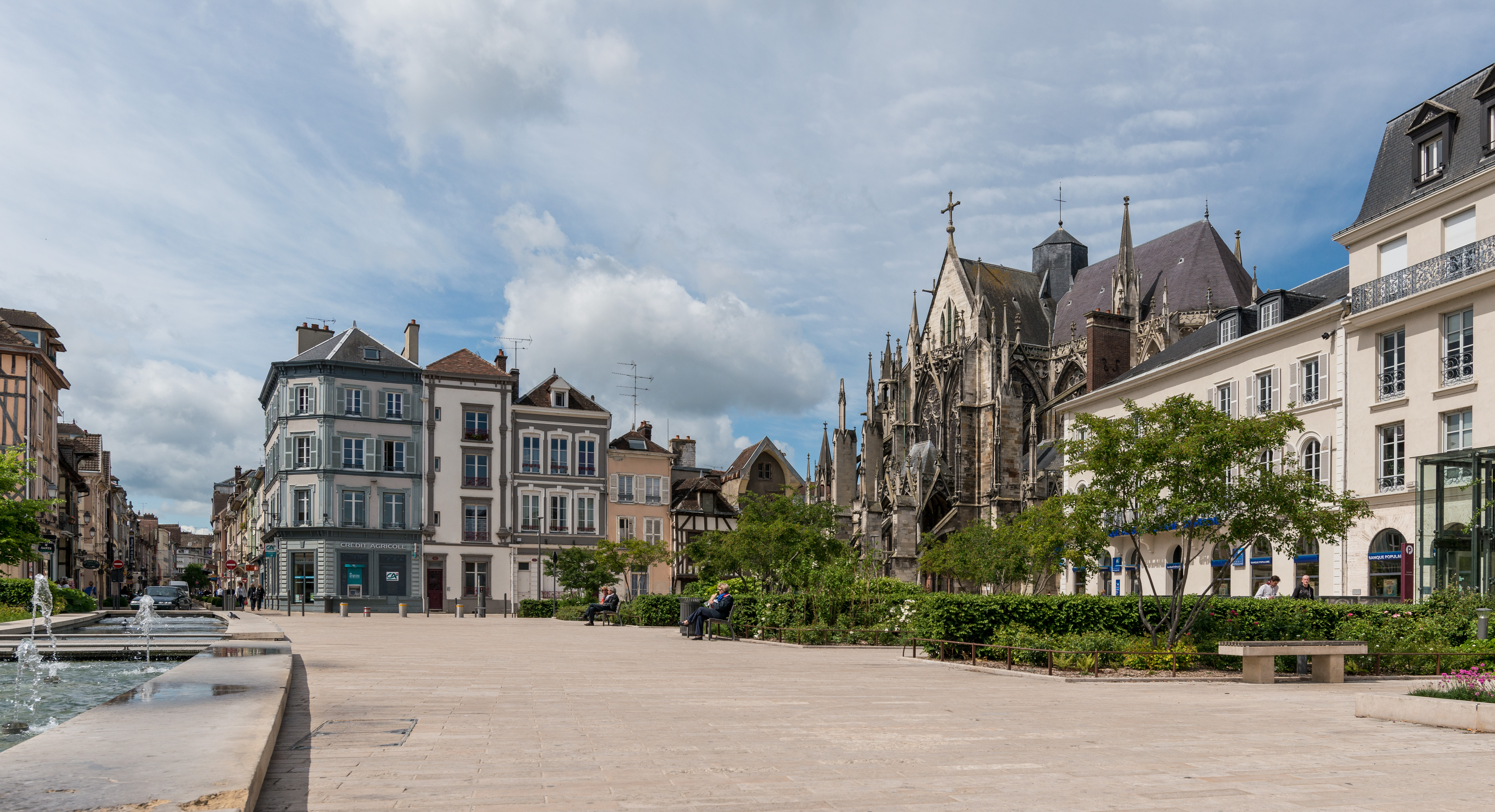 Place de la Libération in Troyes